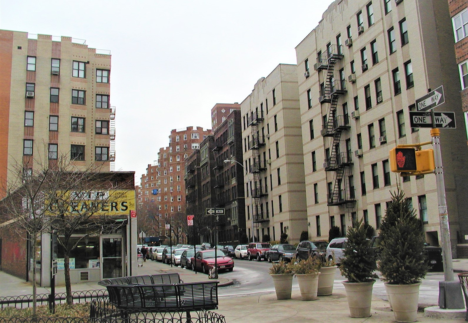 Cabrini Boulevard in Hudson Heights Manhattan NYC. This view from 187th Street looking south shows the Castle Village housing cooperative in the background. Category:Photographs by User:Petri Krohn